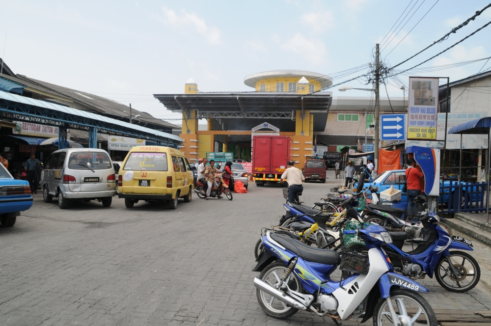 Kukup, Pontian, Johor, Malaysia